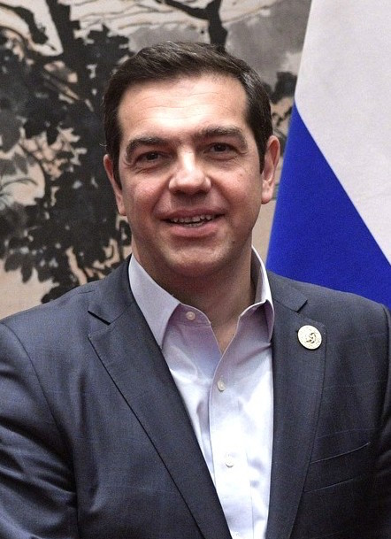 Russian President Vladimir Putin with Greek Prime Minister Alexis Tsipras